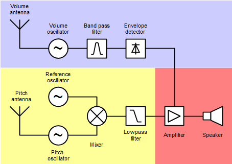 Block diagram of a Theremin. Volume control in blue, pitch control in yellow and audio output in red.